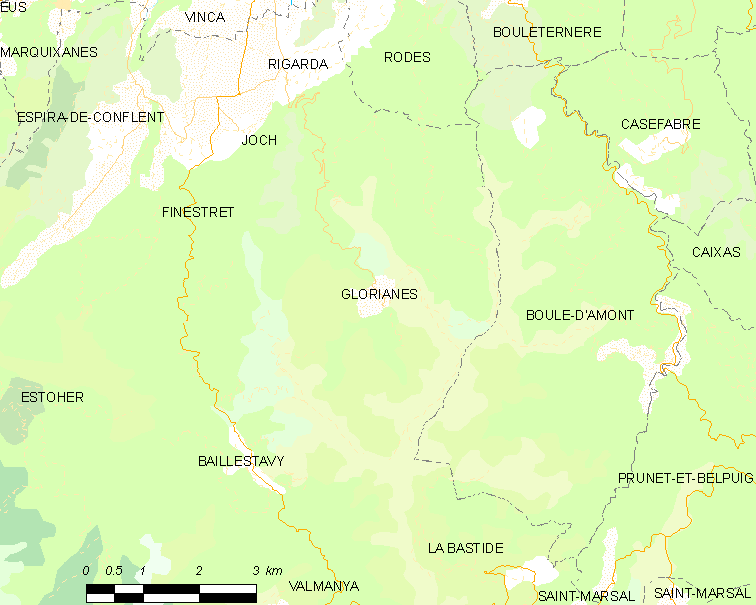 Map of French municipality